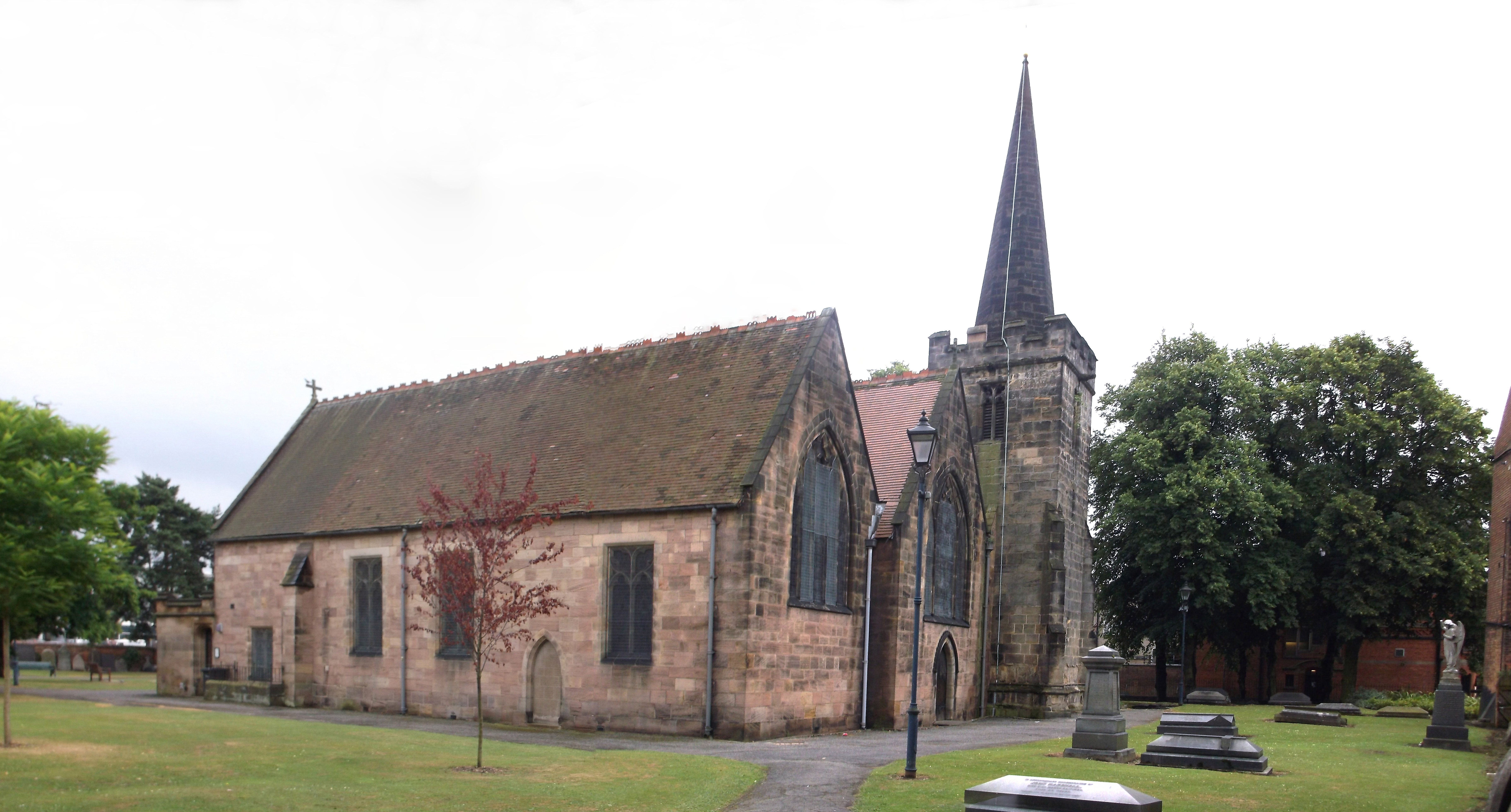 St Laurence's Church, Long Eaton, from Market Place